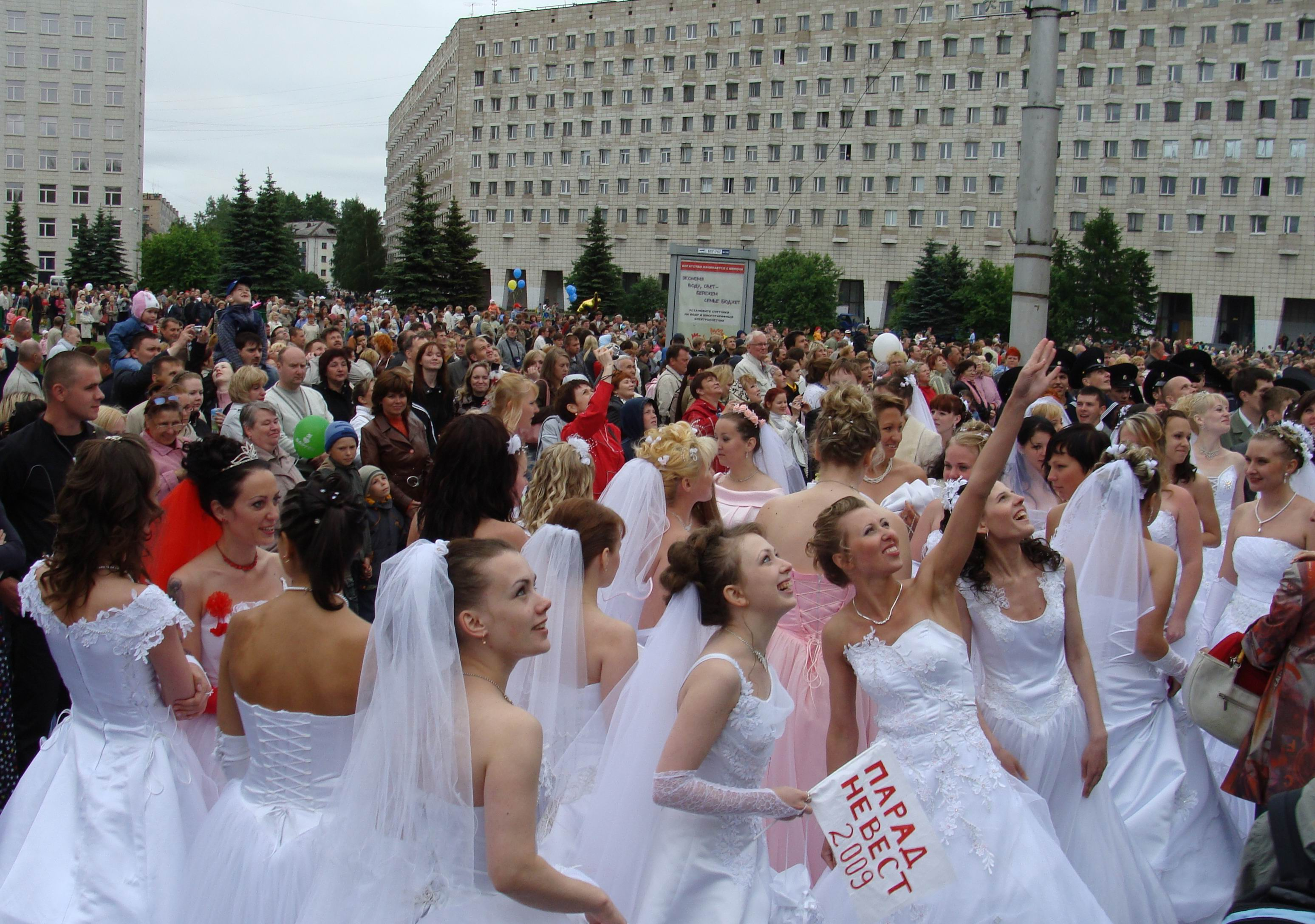 Women costumed as brides in celebration of the 450th anniversary of the founding of Arkhangelsk.